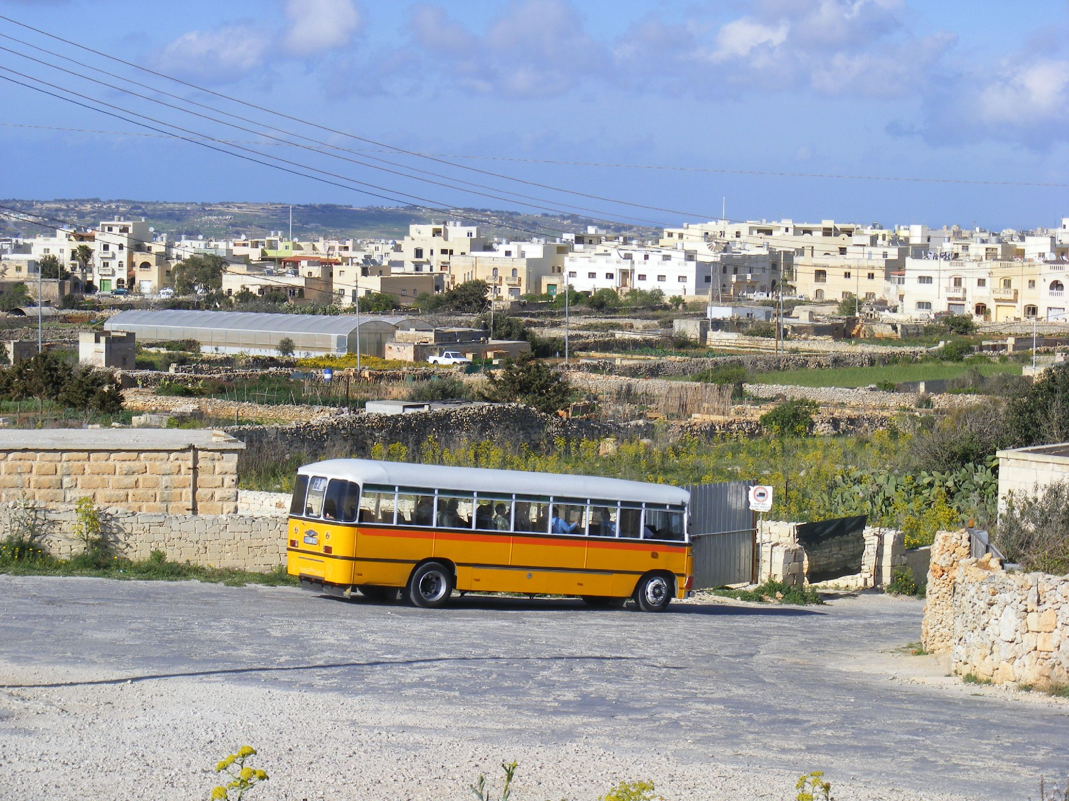 Caught me a bit by surprise, hence the cables which I quite like now, a touch of reality. I am surpised late Bedford SBs with Duple or Plaxton bodywork were never imported into Malta alongside the R1014s and YRQs